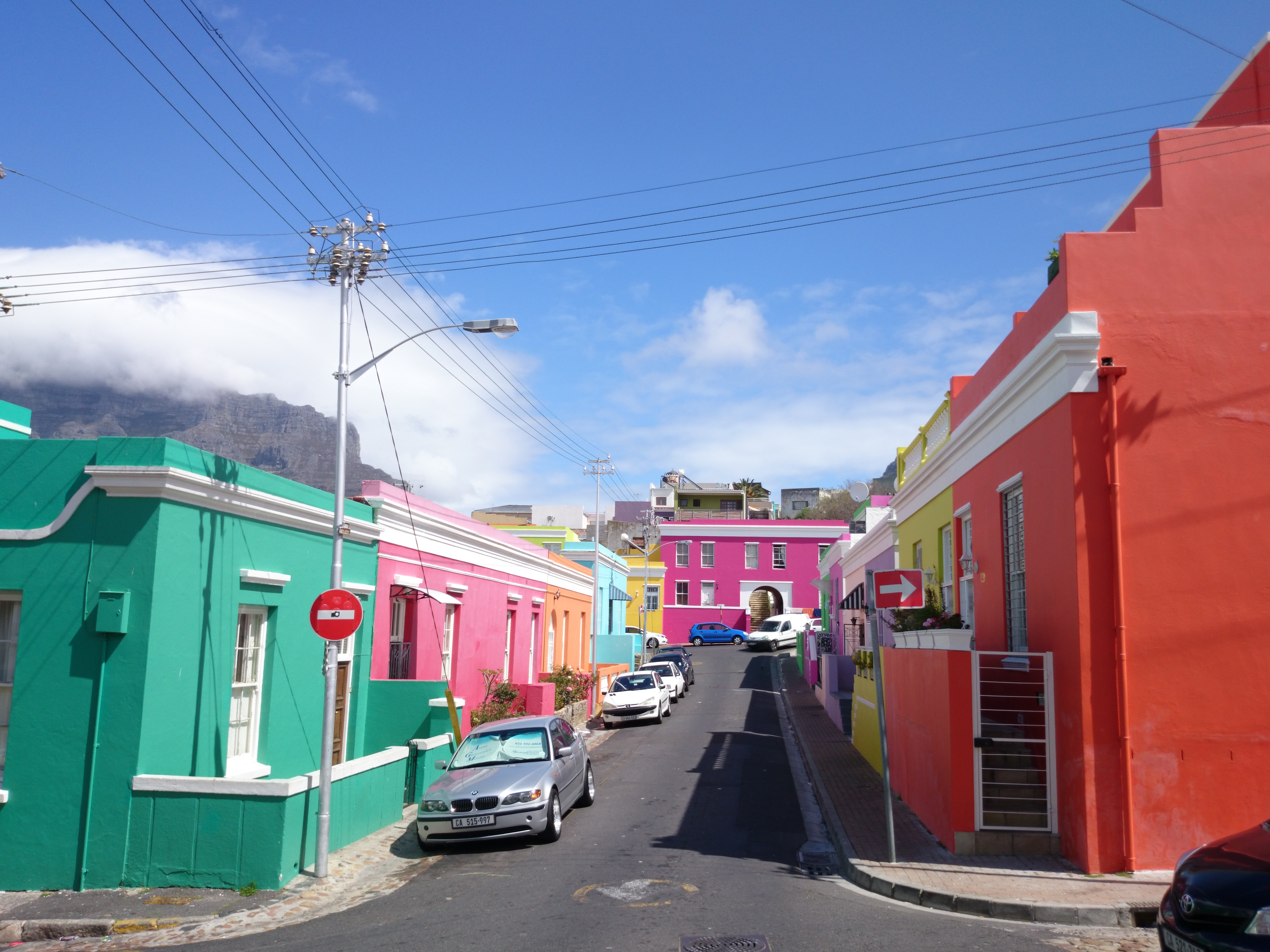 Some of the colorful buildings you will find at Bo-Kaap, Cape Town, South Africa